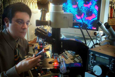 Roberto Dabdoub in his Lab